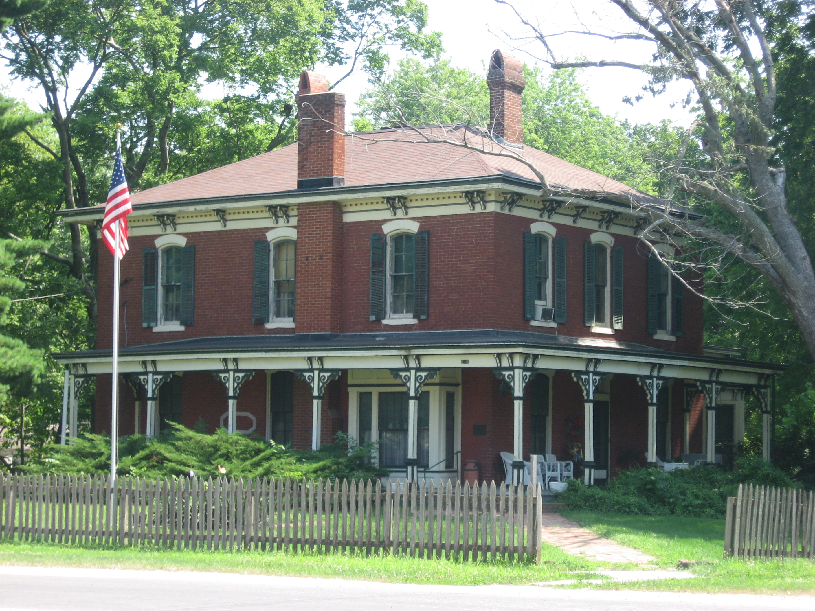 Front and southern side of the Calendar Rohrbough House, located on the northeastern corner of the junction of Third and Washington Streets in Kinmundy, Illinois, United States. Built in 1875, it is listed on the National Register of Historic Places.